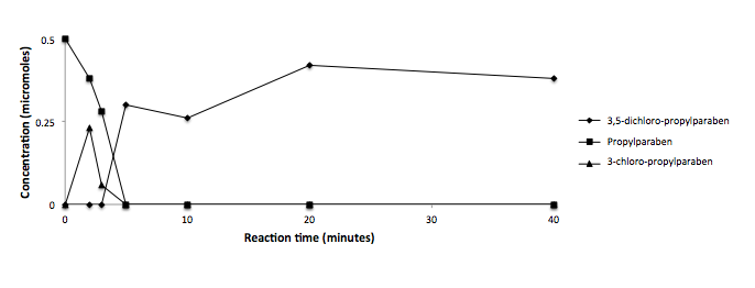 Chlorination of propylparaben over time in water at 20° Celsius containing .5 μM propylparaben and 50 μM free chlorine.